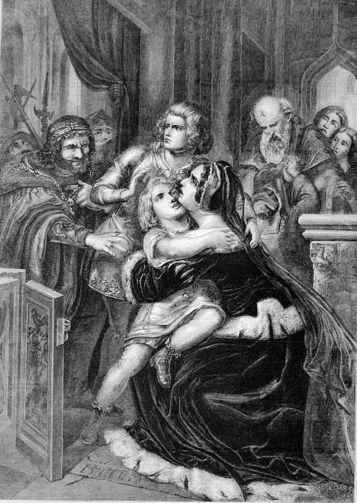 engraving of Stilke's painting depicting Richard III taking prince Richard from sanctuary